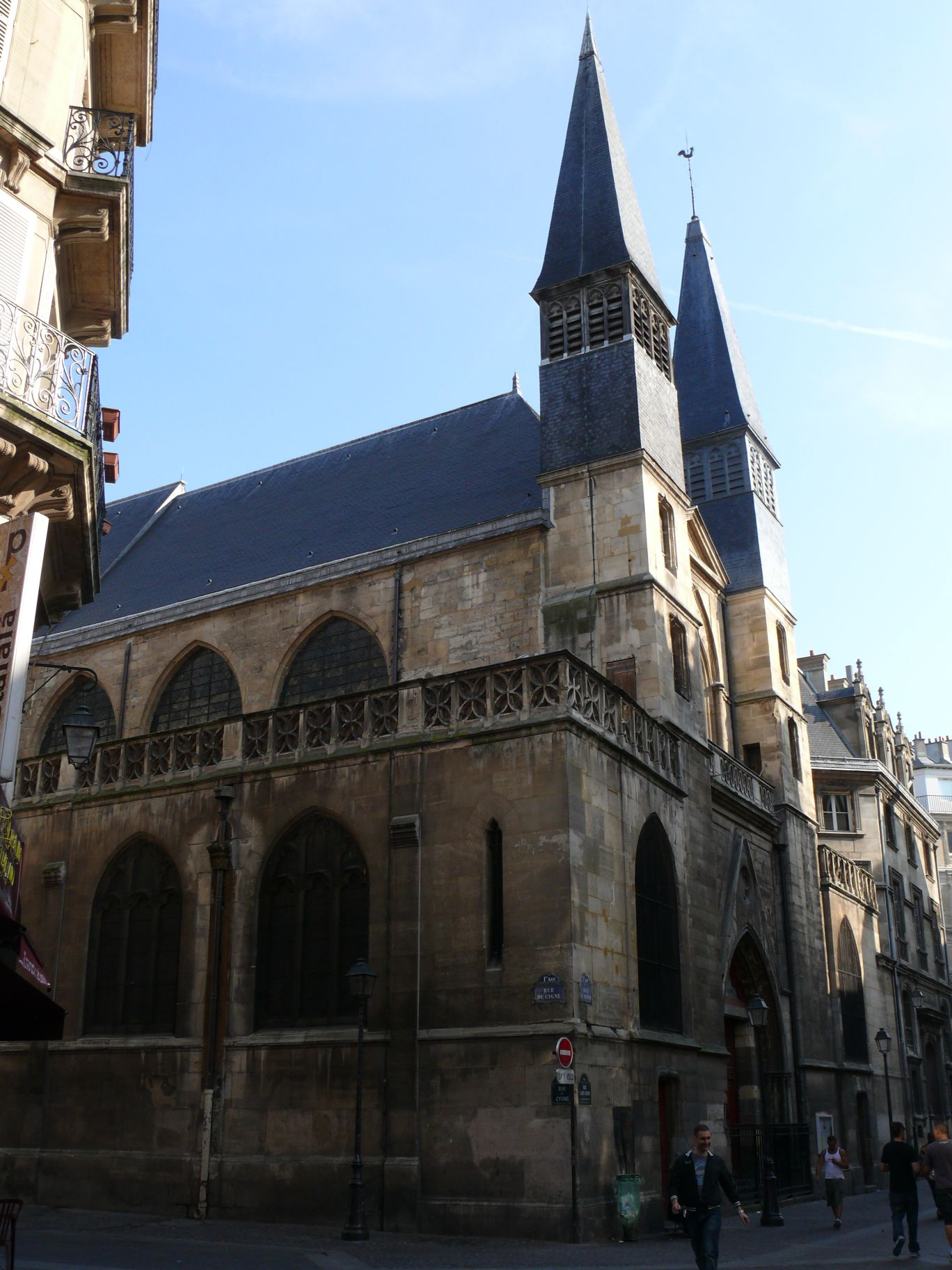 Saints Leu and Gilles' church, in Paris (Paris I, France)